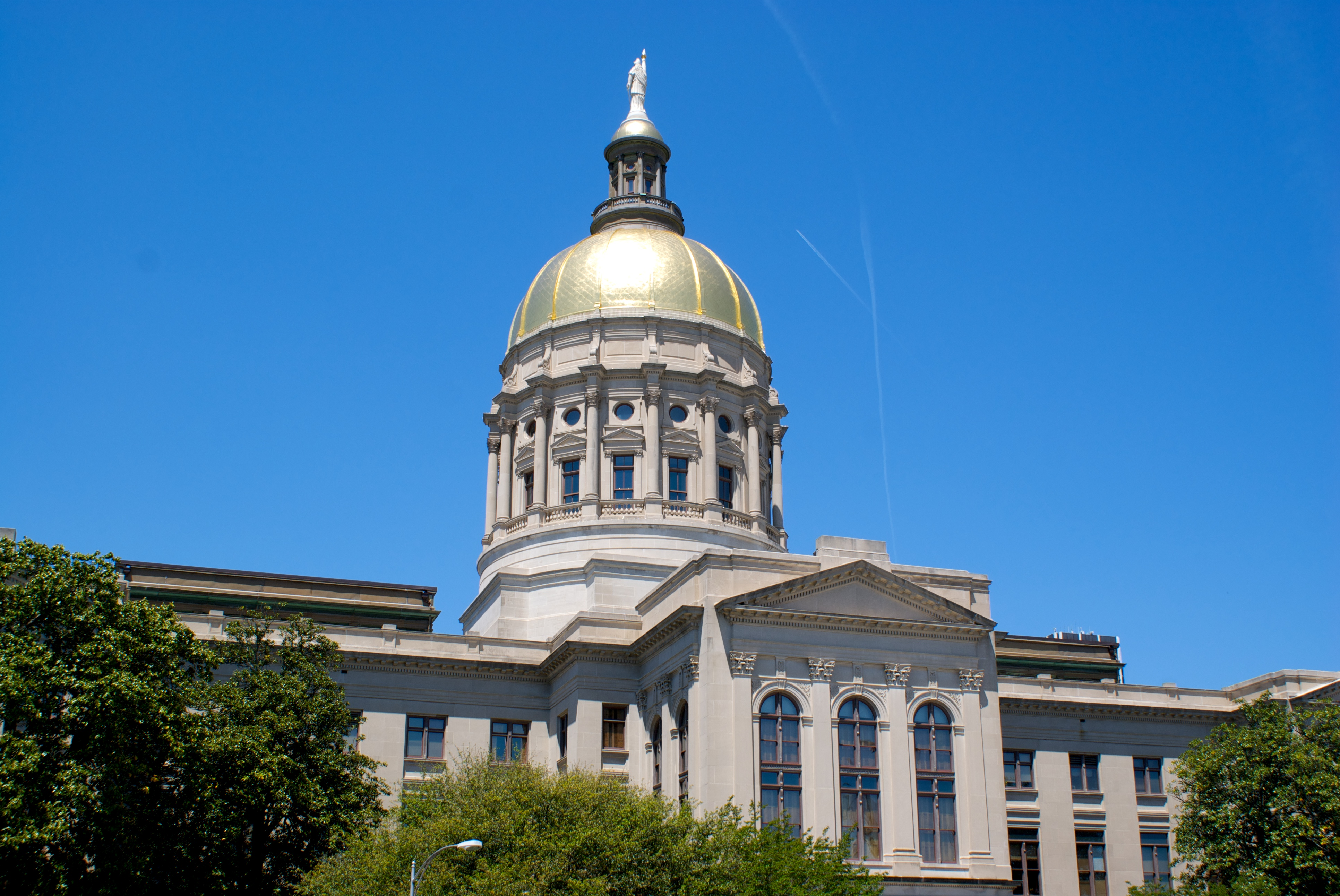 Close-up of the Georgia State Capitol.